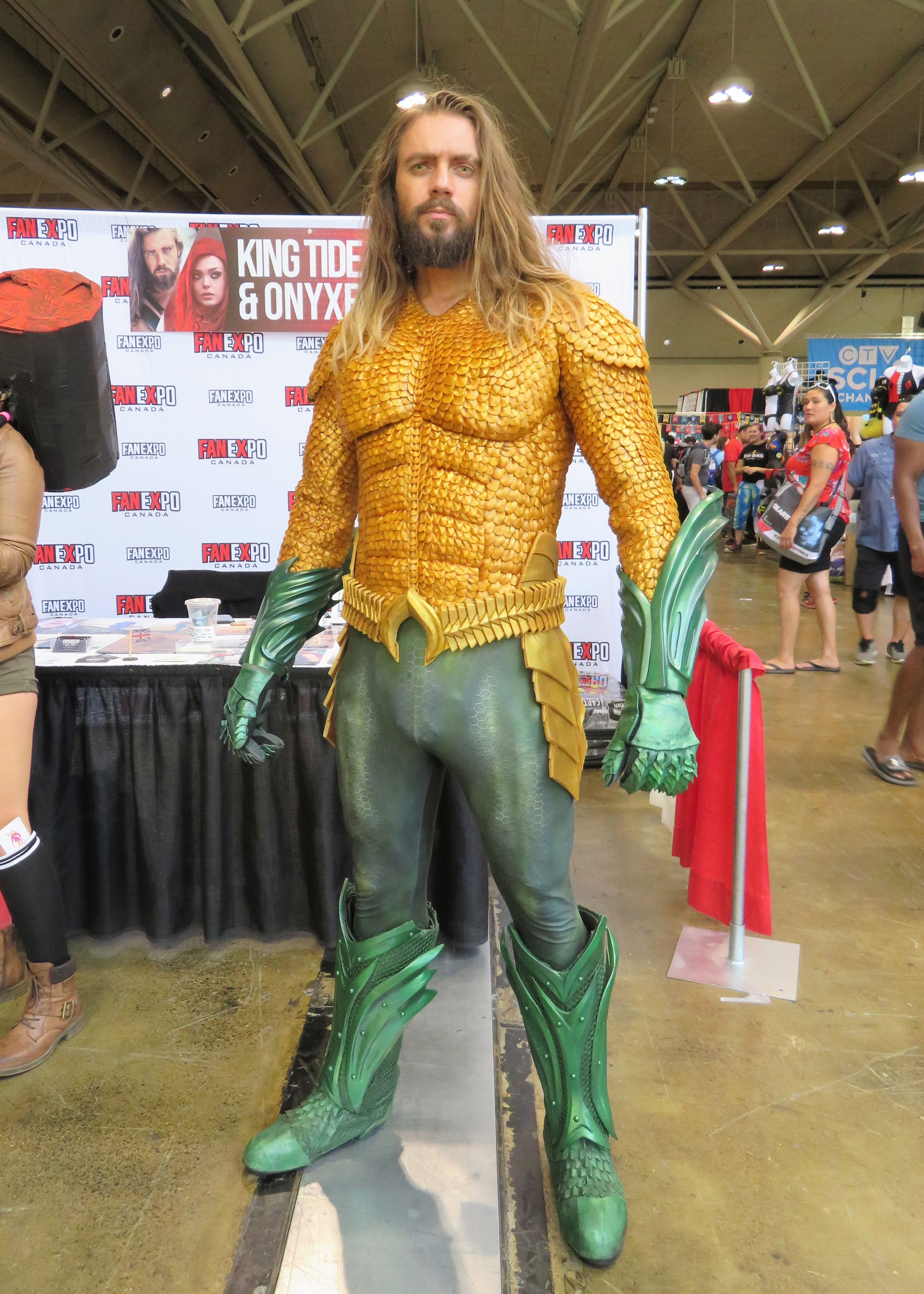 King Tide cosplay as Aquaman